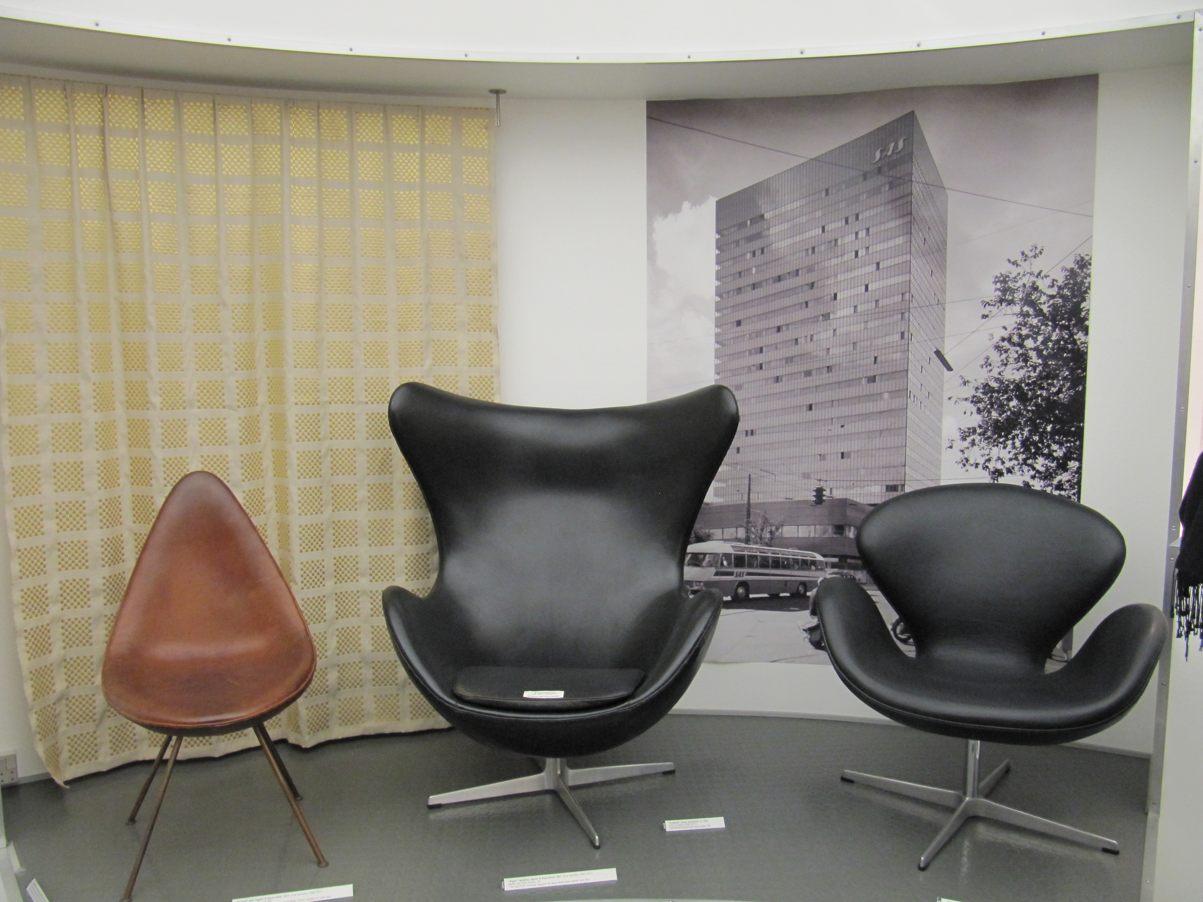 Arne Jacobsen chairs at display in Design Museum Denmark. From ledt to right: The Drop, The Egg and The Swan